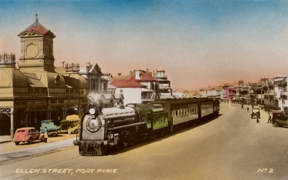 A train on the broad-gauge railway line running down the centre of Ellen Street, Port Pirie. It comprises South Australian Railways steam locomotive no. 625, two steel passenger cars and a 'Long Tom' brake van. The street is lined with shops and public buildings; the Ellen Street station dominates. This is a printed postcard image that was coloured by the photographer and/or the printer.